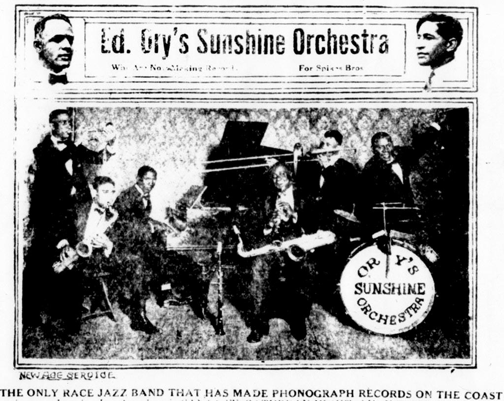 Chicago Defender article noting Kid Ory's Sunshine Orchestra making records in Los Angles, 1922. Mutt Carey cornet, Slocum Mitchell sax, Fred Washington piano, Wade Whaley clarinet & sax, Kid Ory trombone and leader, Ben Borders drums. At top are music promoters and record shop owners Ben and Reb Spikes. New Age Service photo published in Chicago Defender, 1922; courtesy of John McCusker.